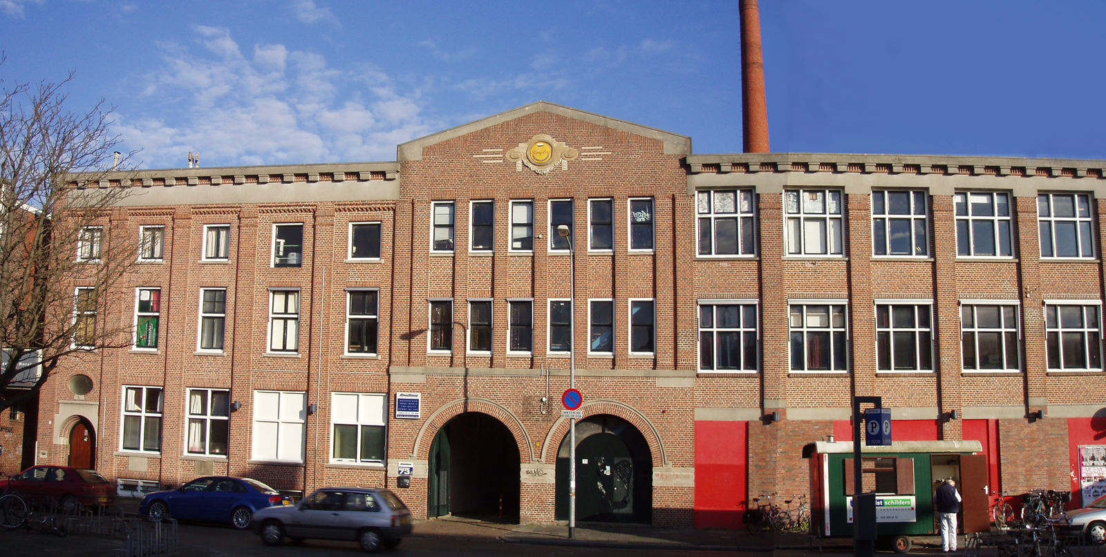 Youthcentre and -hostal Simplon in Groningen, the Netherlands. Front of the building as seen from the road running in front of it, the Boterdiep.